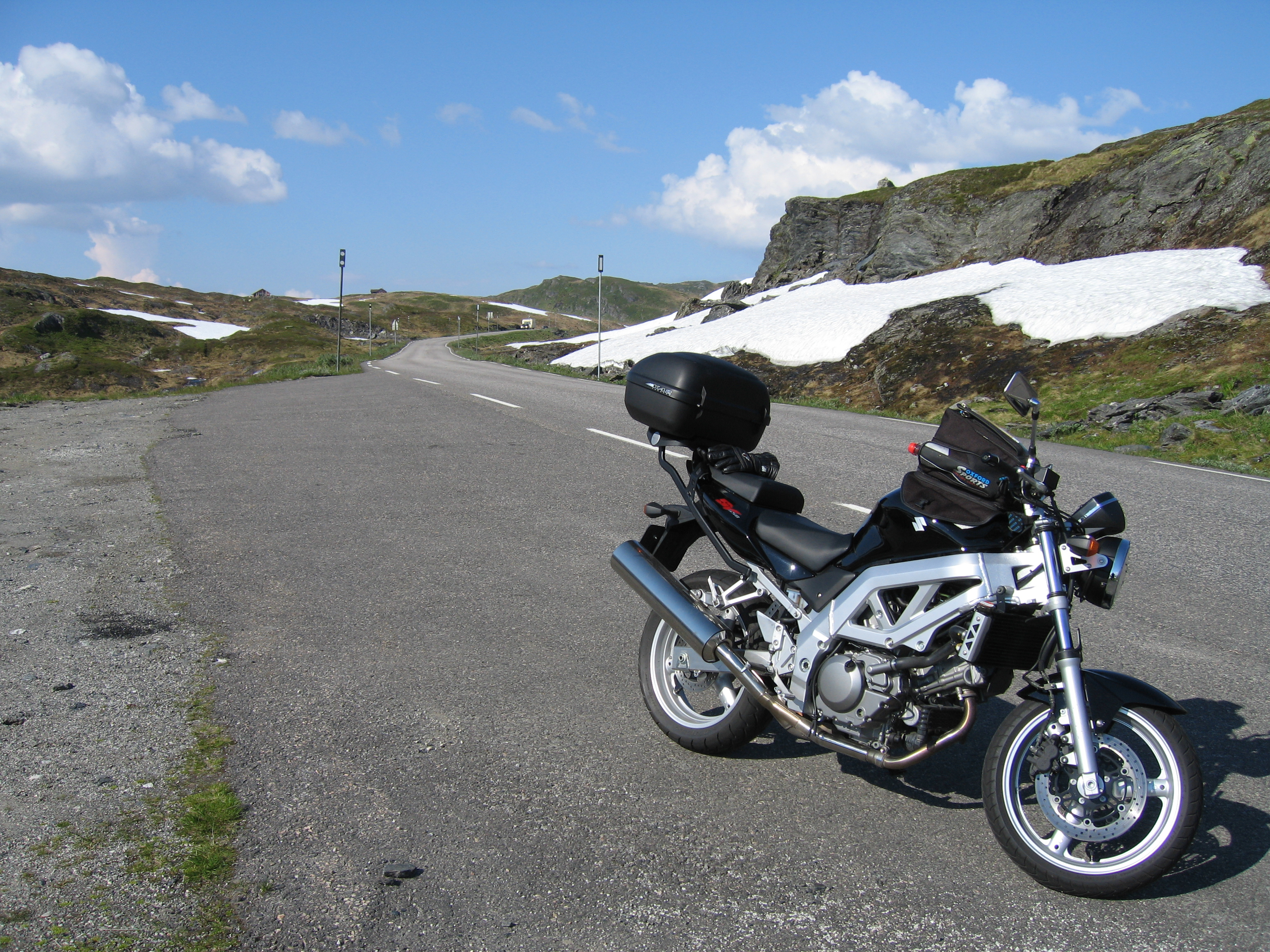 A picture of my 2004 Suzuki SV650 taken by myself at Vikafjellet, Norway. Trondos 20:07, 5 January 2007 (UTC)